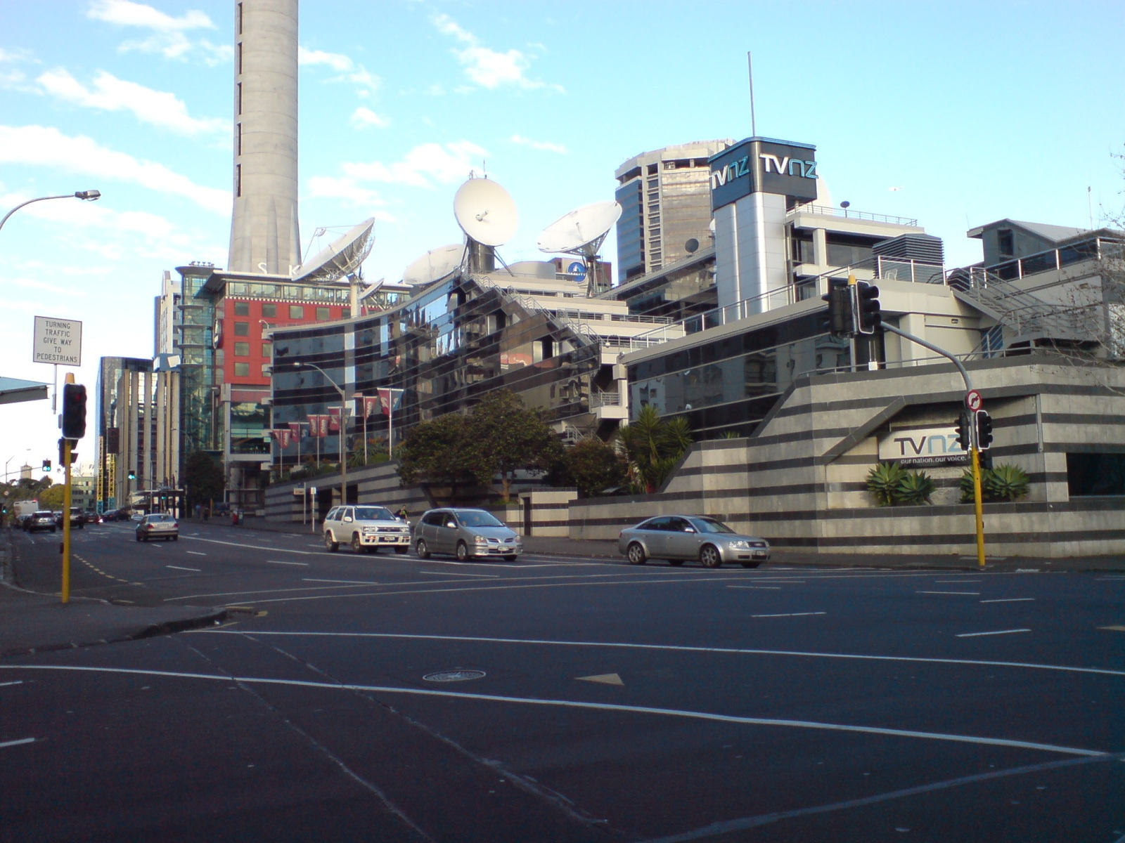 The Auckland City building of Television New Zealand.